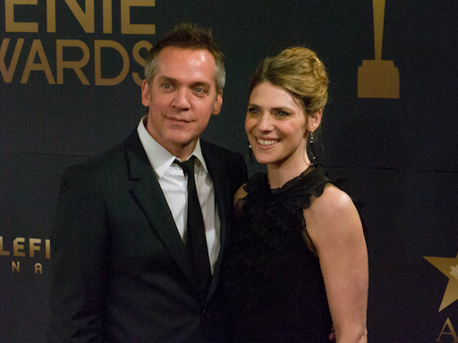 Director Jean-Marc Vallée and actress Hélène Florent from the film Café de Flore at the 32nd Genie Awards